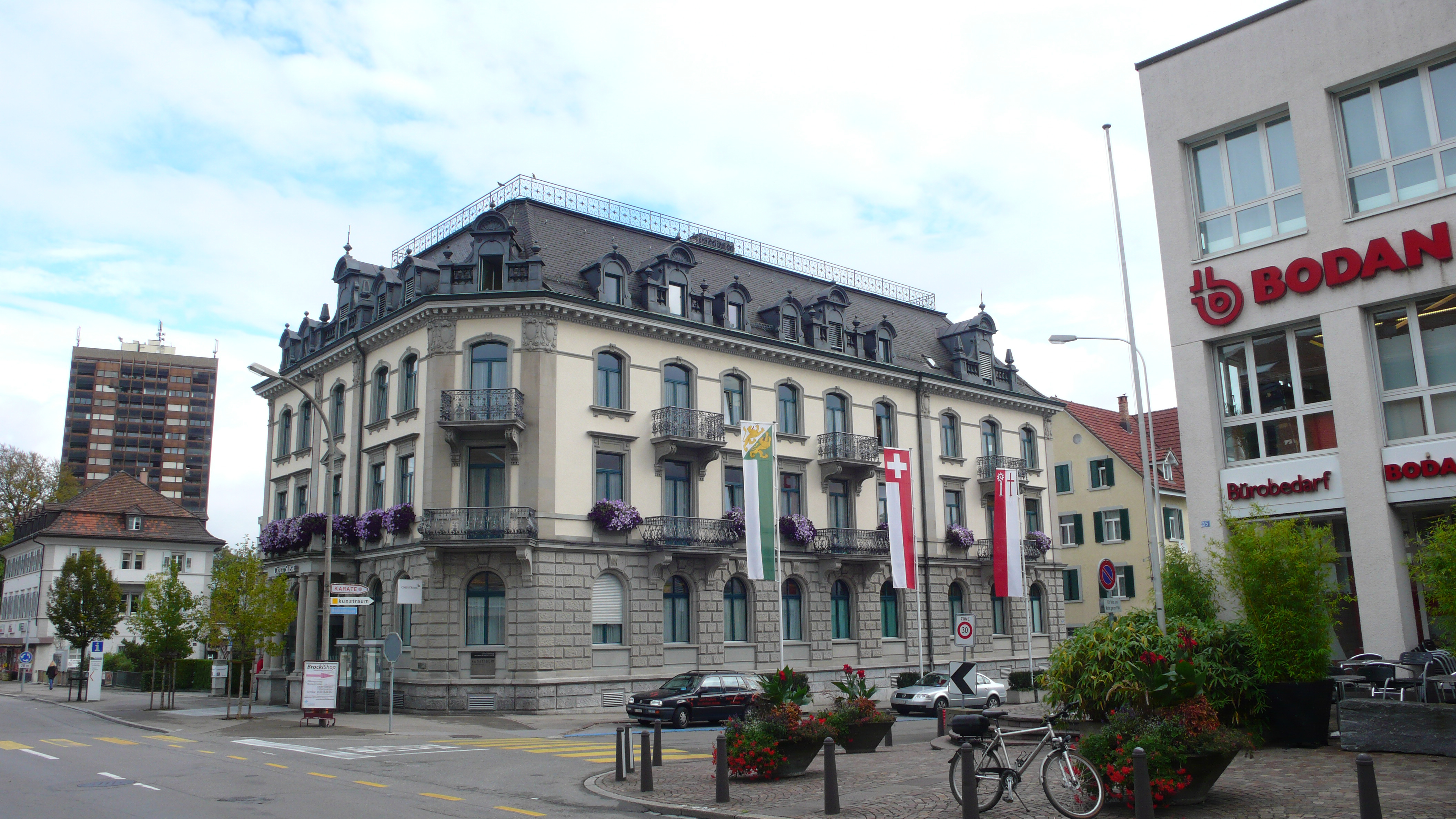 Hauptstrasse in Kreuzlingen, bank building built in 1903.